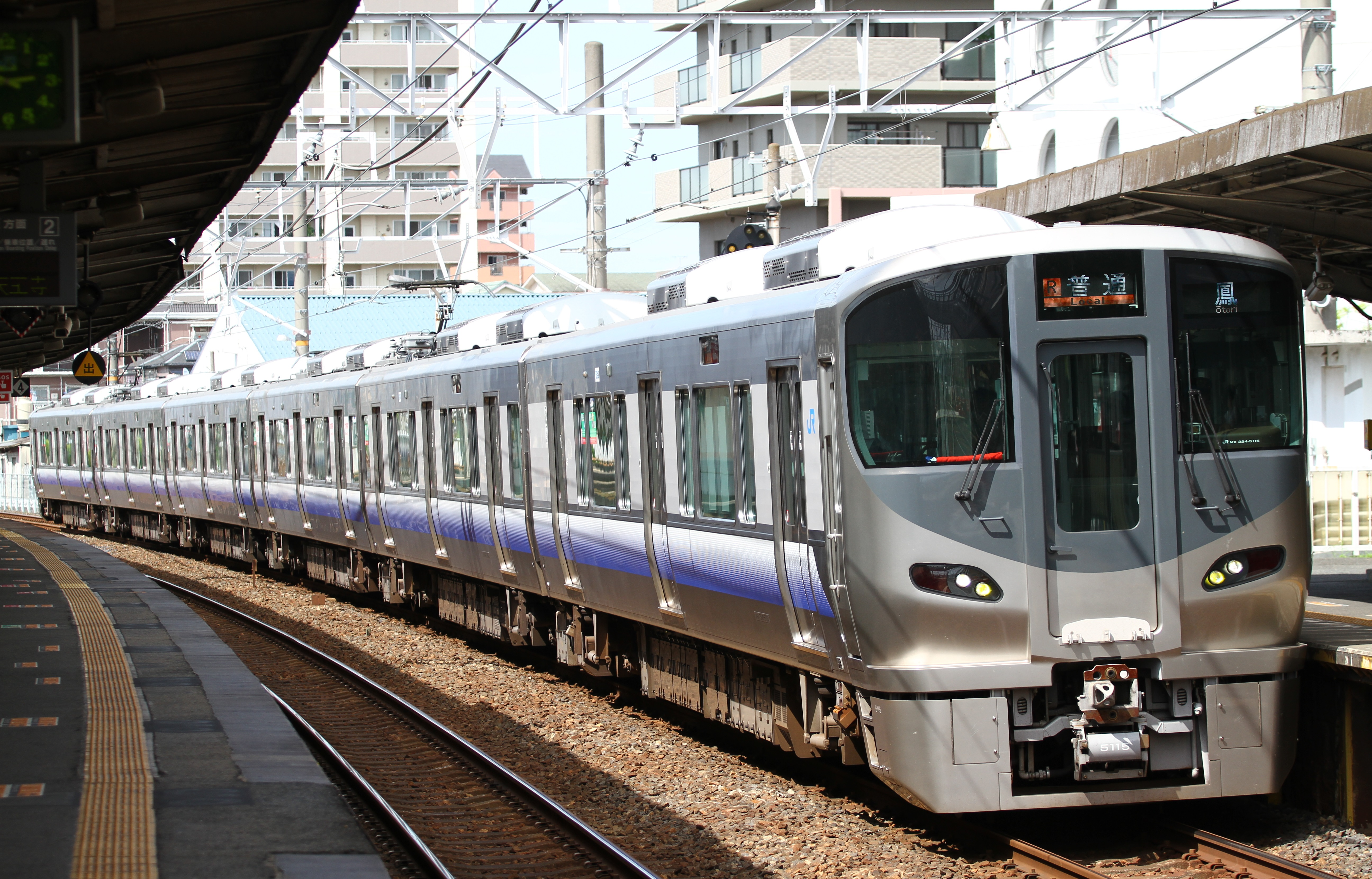 A JR West 225-5100 series six-car EMU at Mozu Station on the Hanwa Line in Osaka Prefecture, Japan